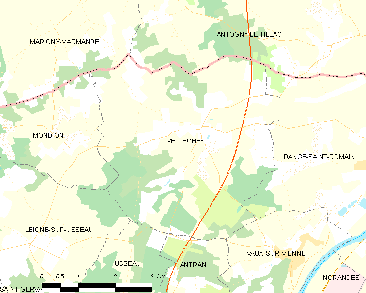 Map of French municipality Vellèches